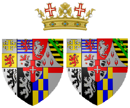 Coat of arms of Maria Anna of Savoy as Duchess of Chablais